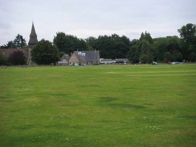 Chorleywood Common cricket ground, with the primary school and spire of Christ Church parish church in the background